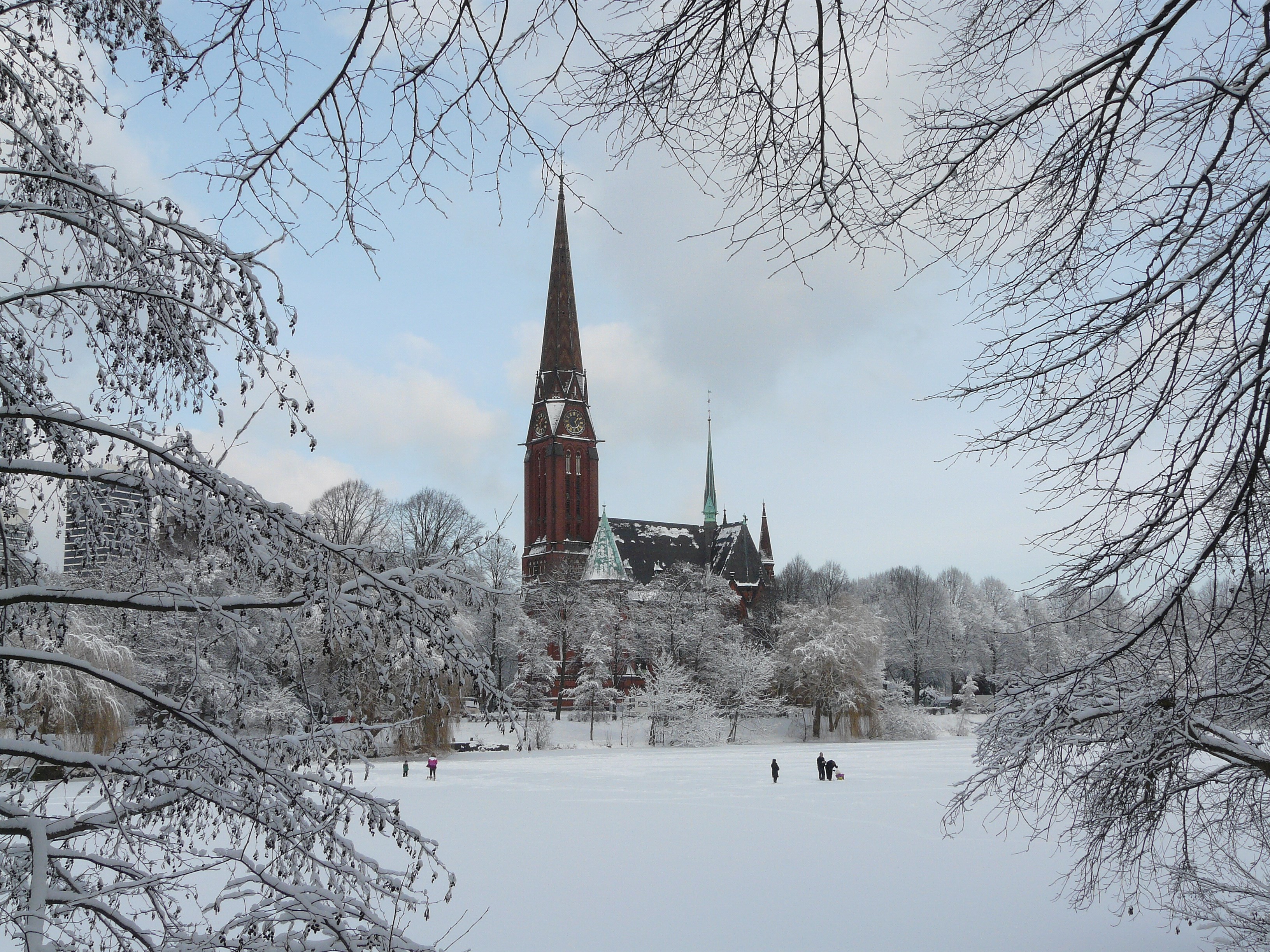 The Church St. Gertrud on Winter in Hamburg-Uhlenhorst